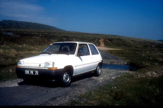 The Deep Ford on the Artillery Road One of several fords on the military road, also known as the "Artillery road"